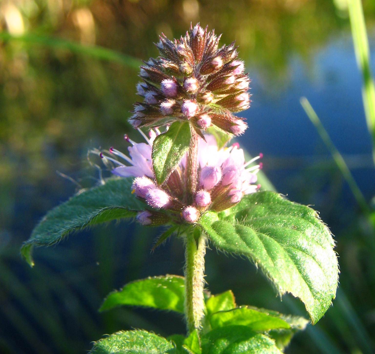 Mentha aquatica cut from the original Image:Mentha aquatica (2005 09 18).jpg picture taken at the "Bert Bos-pad", Westbroek, Netherlands, September 19 2005